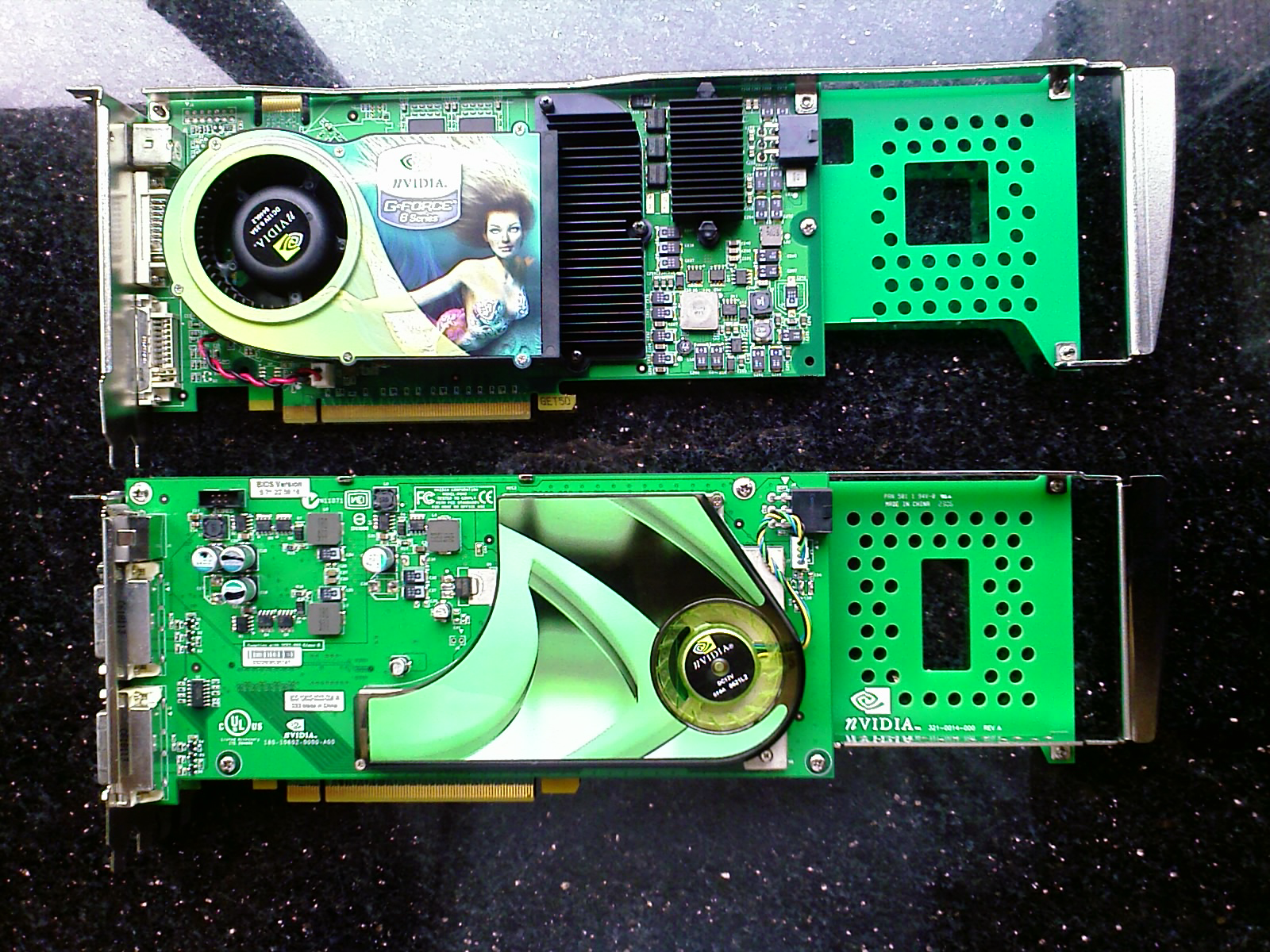 NVIDIA GeForce 6800 Ultra & NVIDIA GeForce 7950 GX2